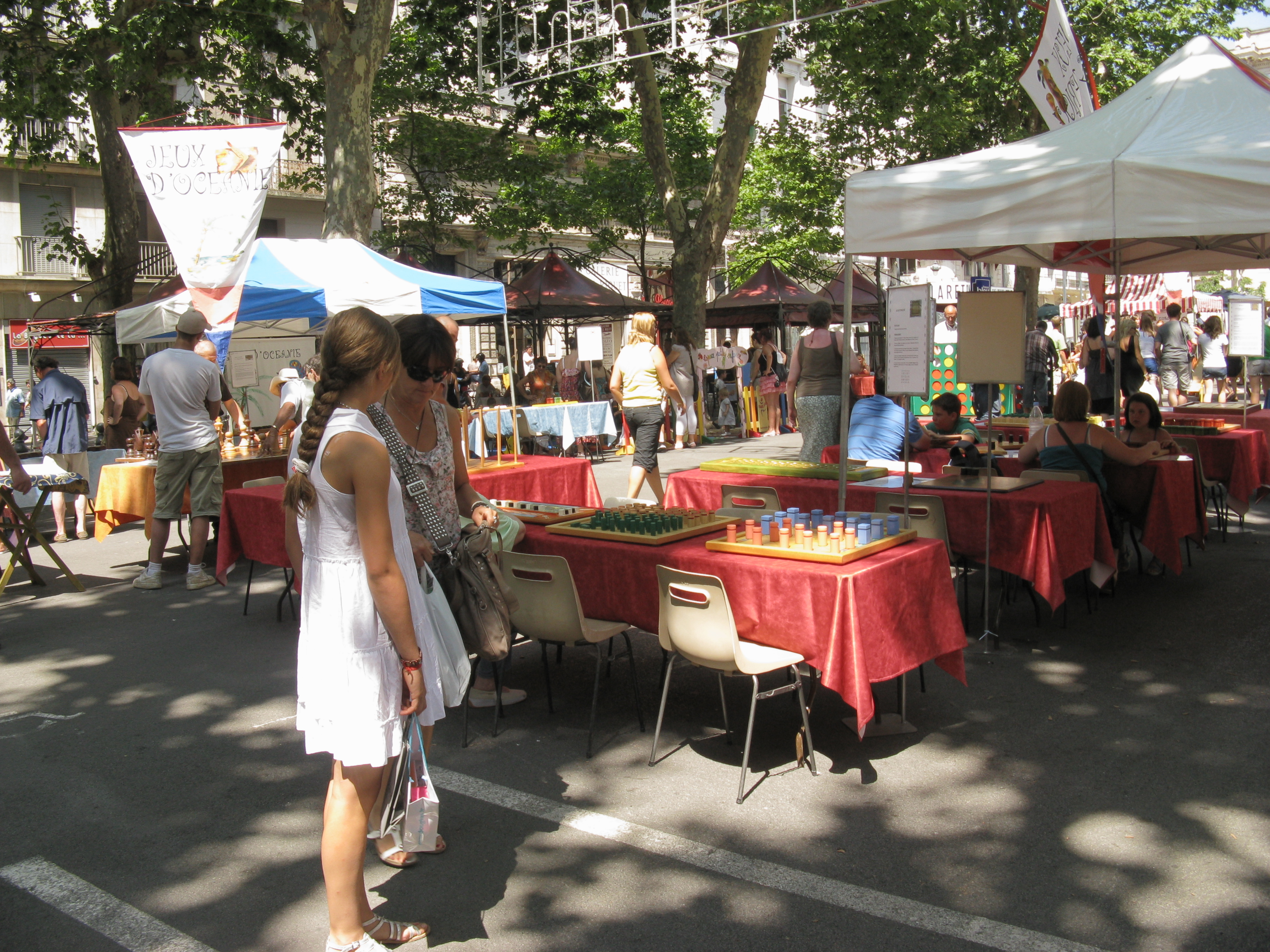 Games in the Occitan festival in Béziers, France.